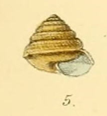 Sitala palmaria - synonym: Helix palmaria Benson